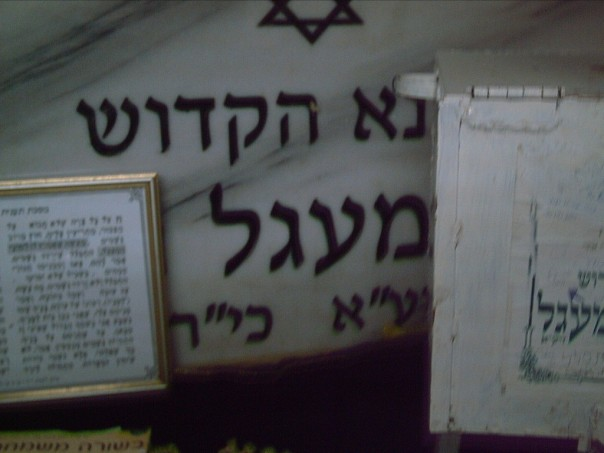 Gravestone of Honi the Circle-Maker in Hatzor HaGlilit